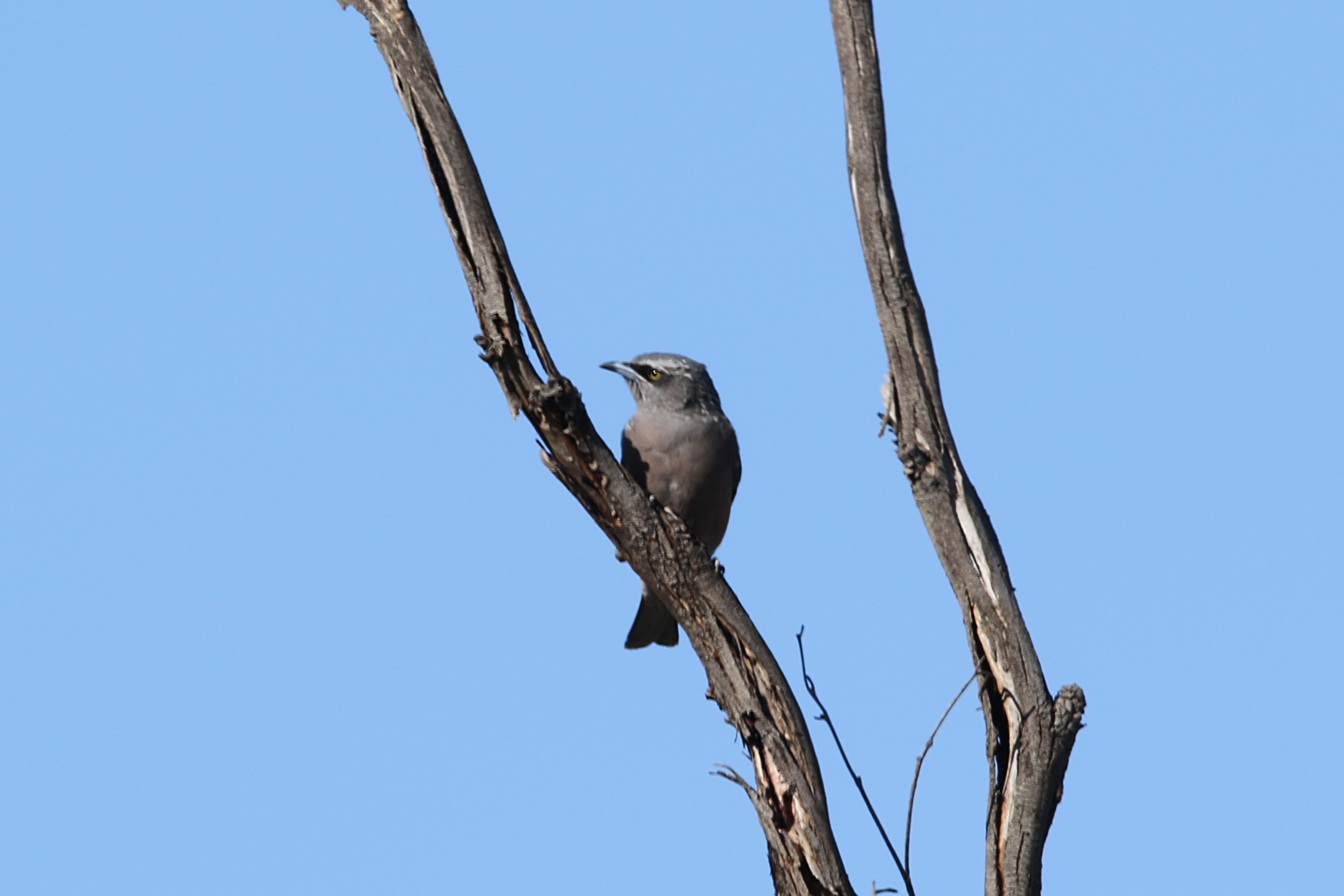 Artamus superciliosus (Gould, 1837), White-browed Woodswallow, Little Desert National Park, VIC, 25 January 2017